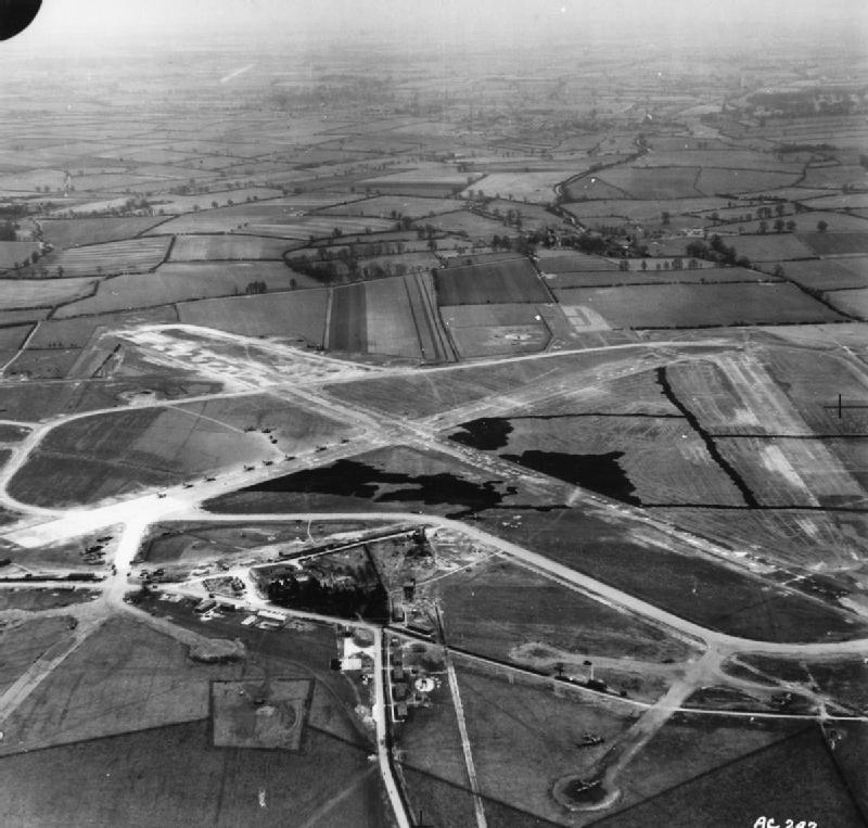 IWM caption : Oblique aerial view of RAF Hinton-in-the-Hedges, Northamptonshire, from the west. Aircraft of No. 13 Operational Training Unit, detached their base at Bicester, Oxfordshire, can be seen on the airfield. A line of Bristol Blenheim Mark IVs of 'A' Flight is parked along one of the runways and Avro Anson navigational trainers of 'D' Flight occupy some of the finger dispersals by the technical site in the foreground. Note the 'wood and hedge' camouflage pattern painted on the south-western half of the airfield.